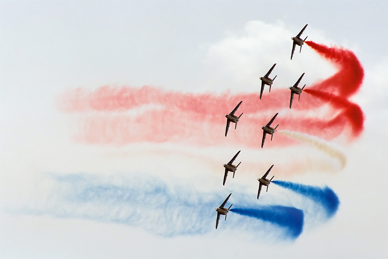 Patrouille de France performing a French tricolor turn at Radom Air Show 2005.